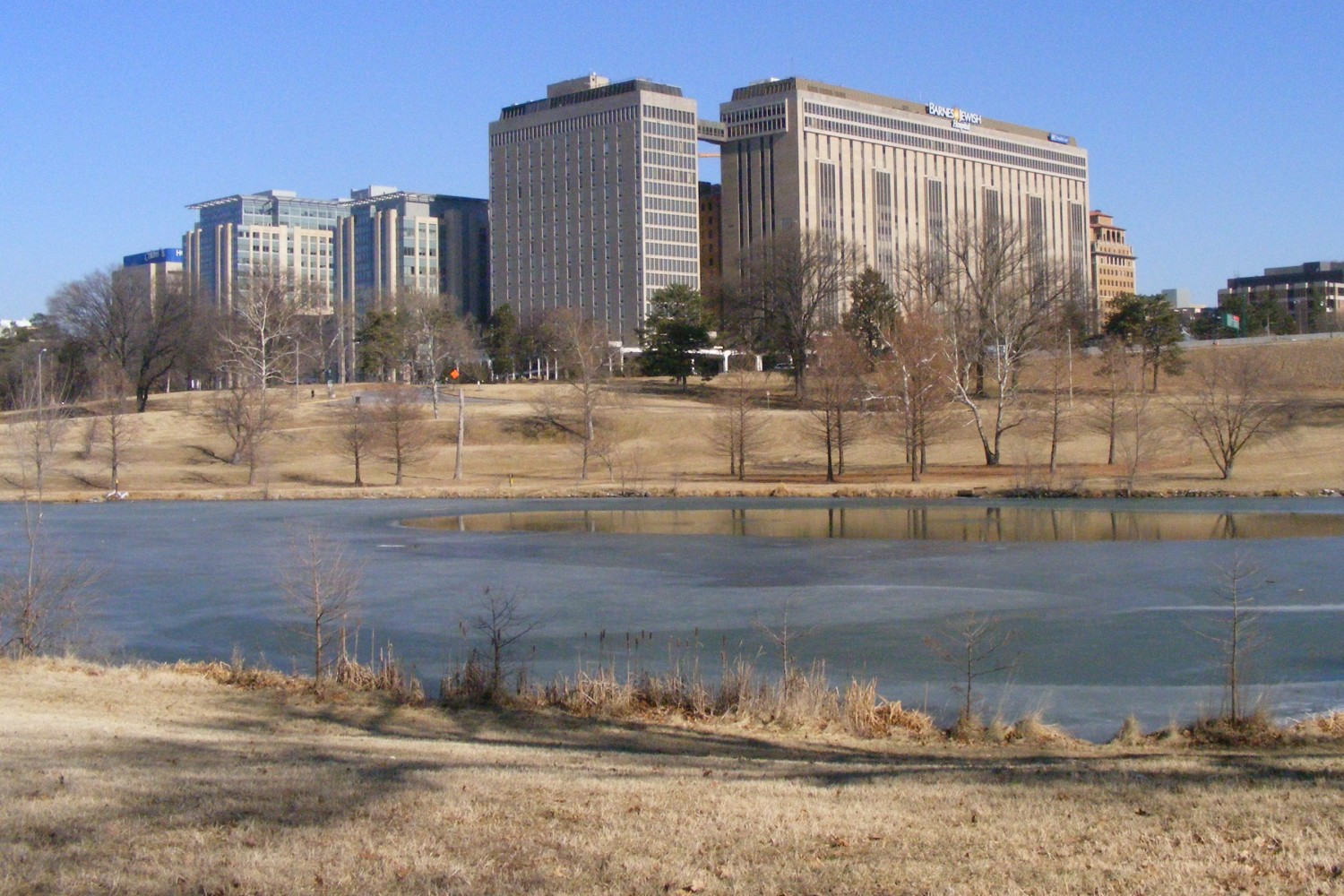 Jefferson Lake in Forest Park in St. Louis, looking toward Barnes-Jewish Hospital.